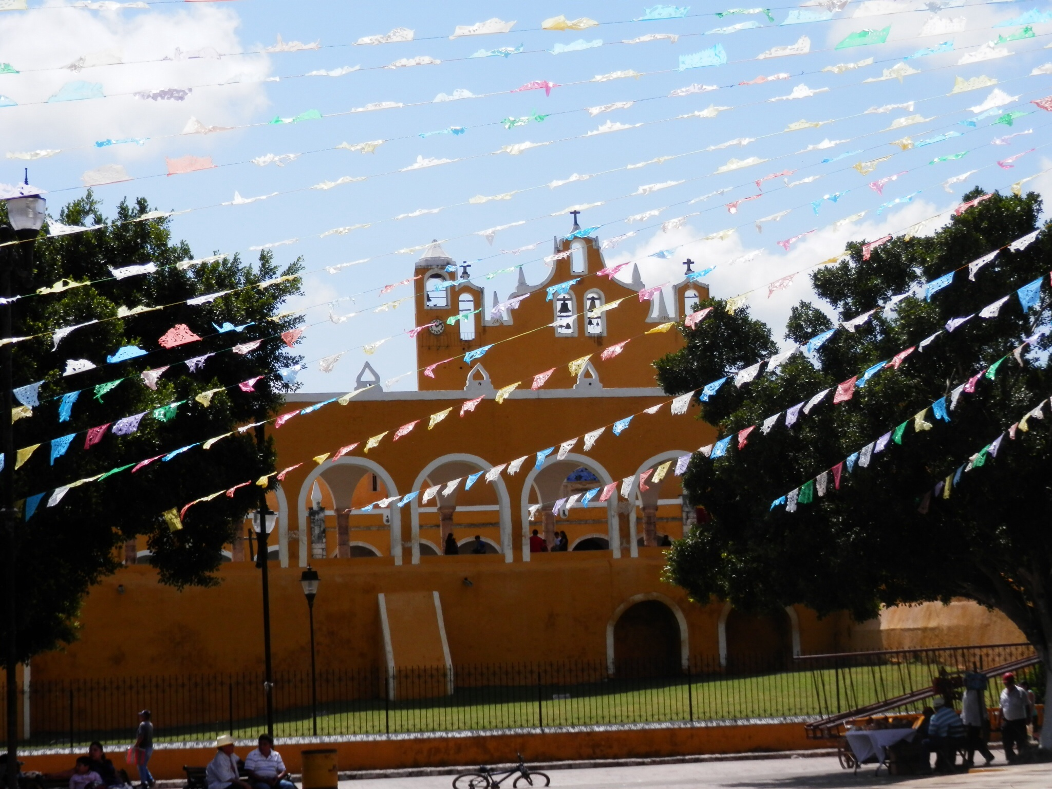 Churchill in Izamal (Mexico)